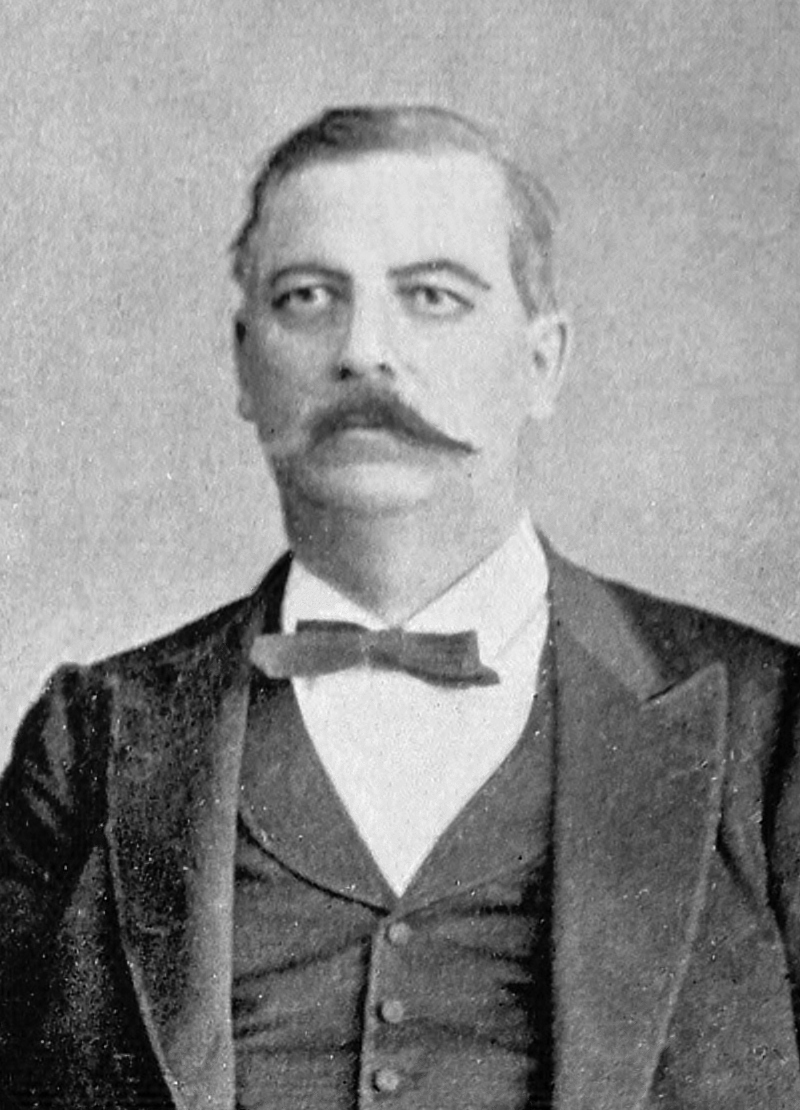 George Needham Dale